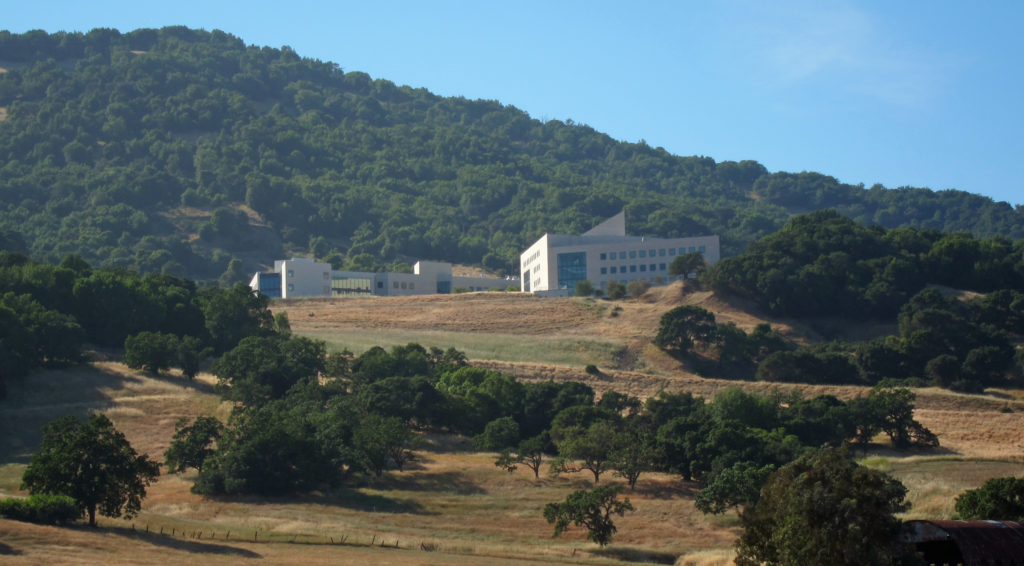 The campus of the Buck Institute for Research on Aging and oak woodlands, seen from Highway 101. Located north of Novato, in Marin County, California. The campus was designed by I. M. Pei.